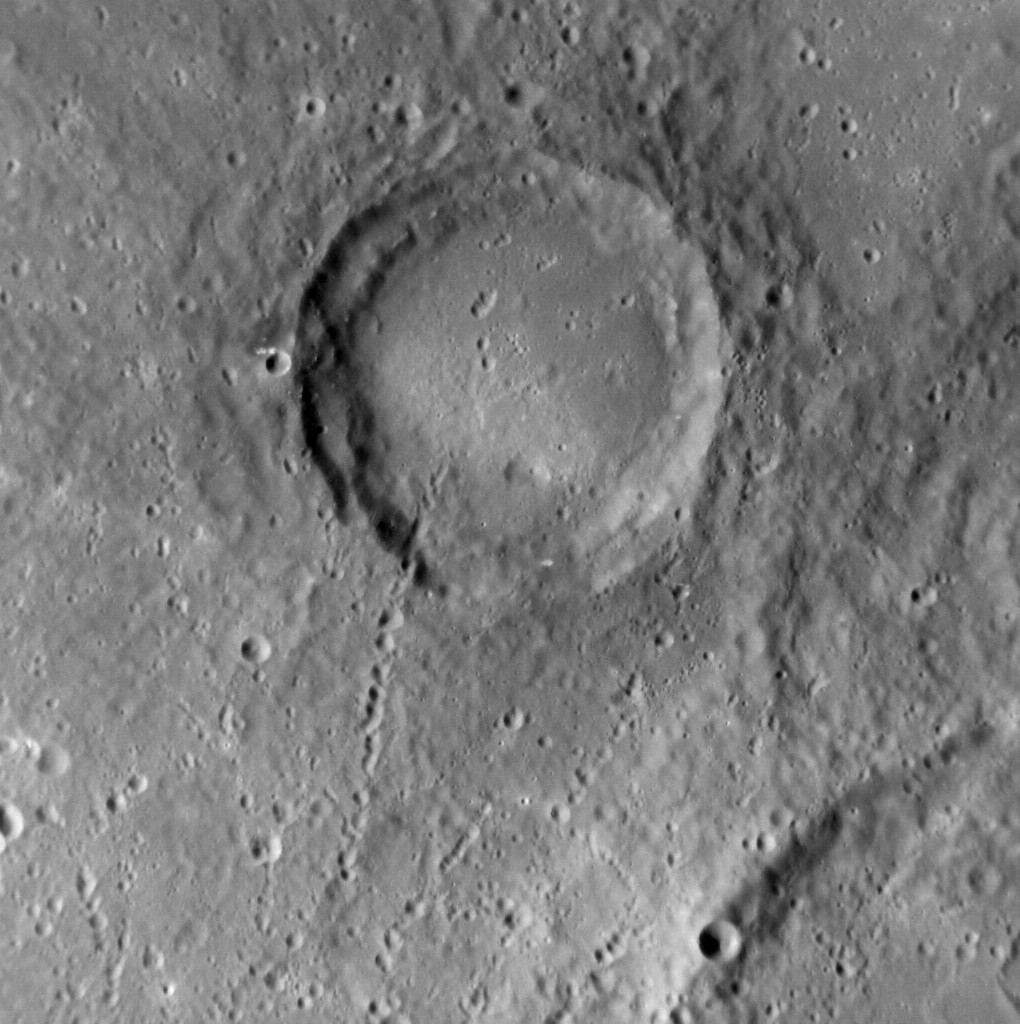 Zmija Facula, within an unnamed crater in the Rembrandt basin on Mercury. MESSENGER Narrow Angle Camera. North is in upper left. Width is approximately 149 km. Emission Angle: 3.6 Incidence Angle: 60.8 Latitude: -37.7 Longitude: 92.2 Phase Angle: 64.3